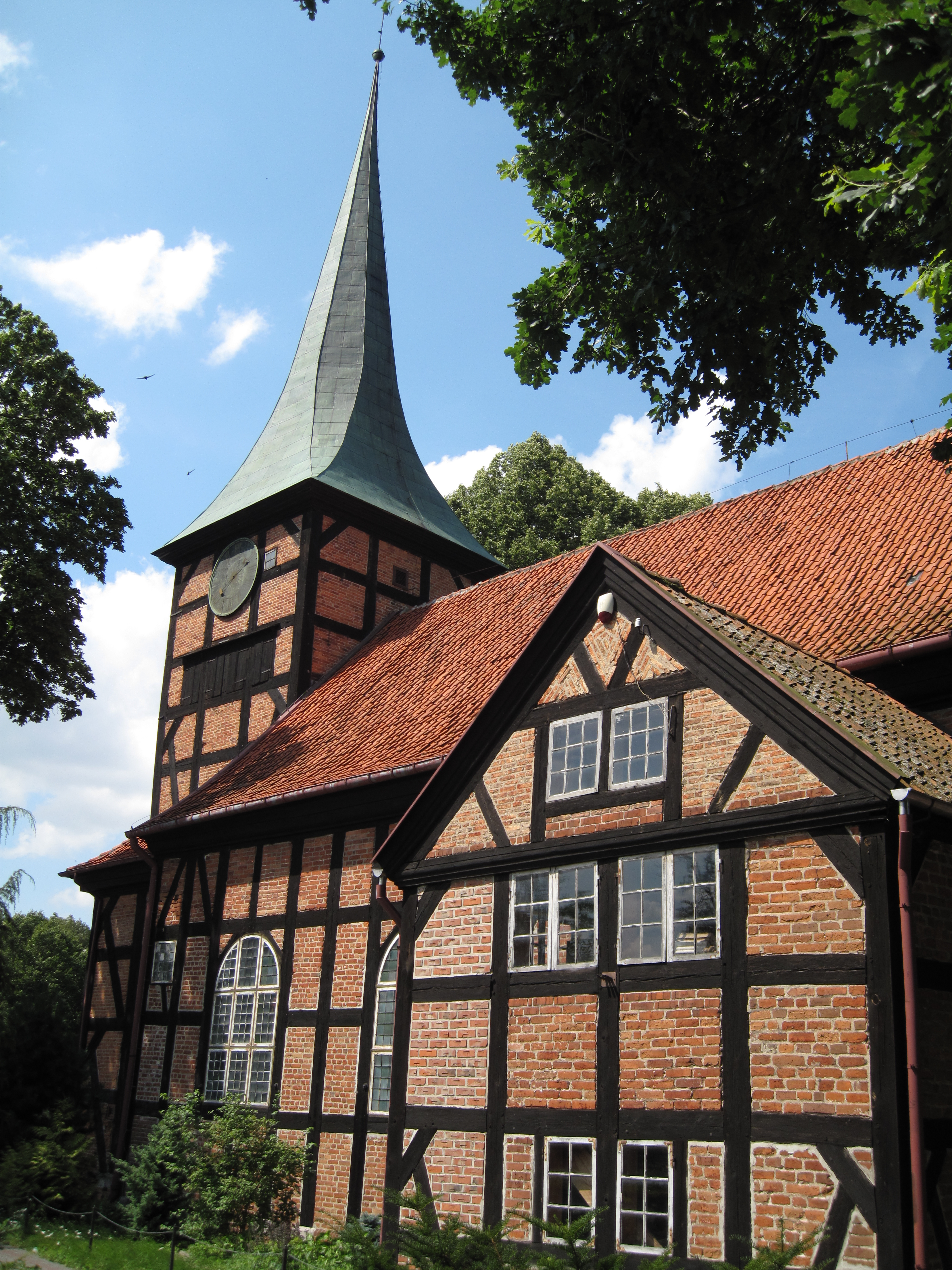 Stegna - church bd. 1683.